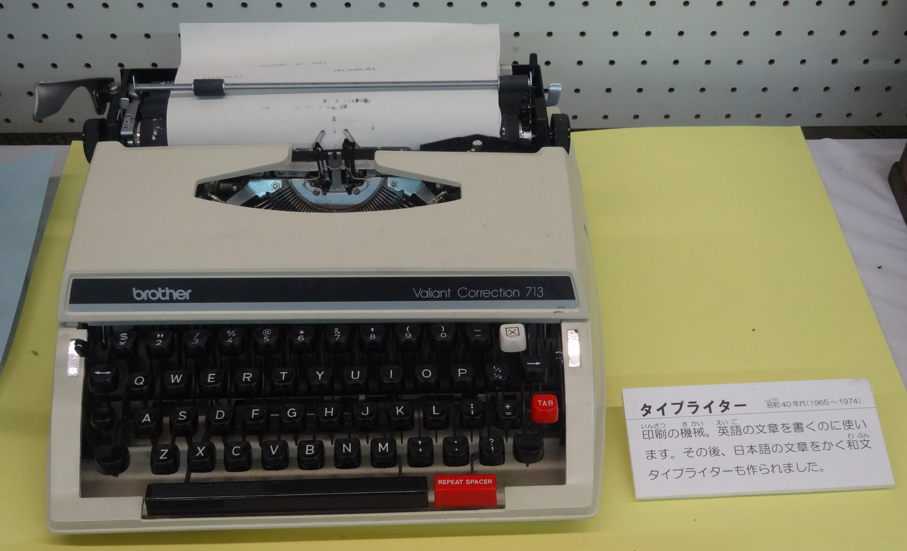 Brother typewriter 1960's-70's, model Valiant Correction 713.